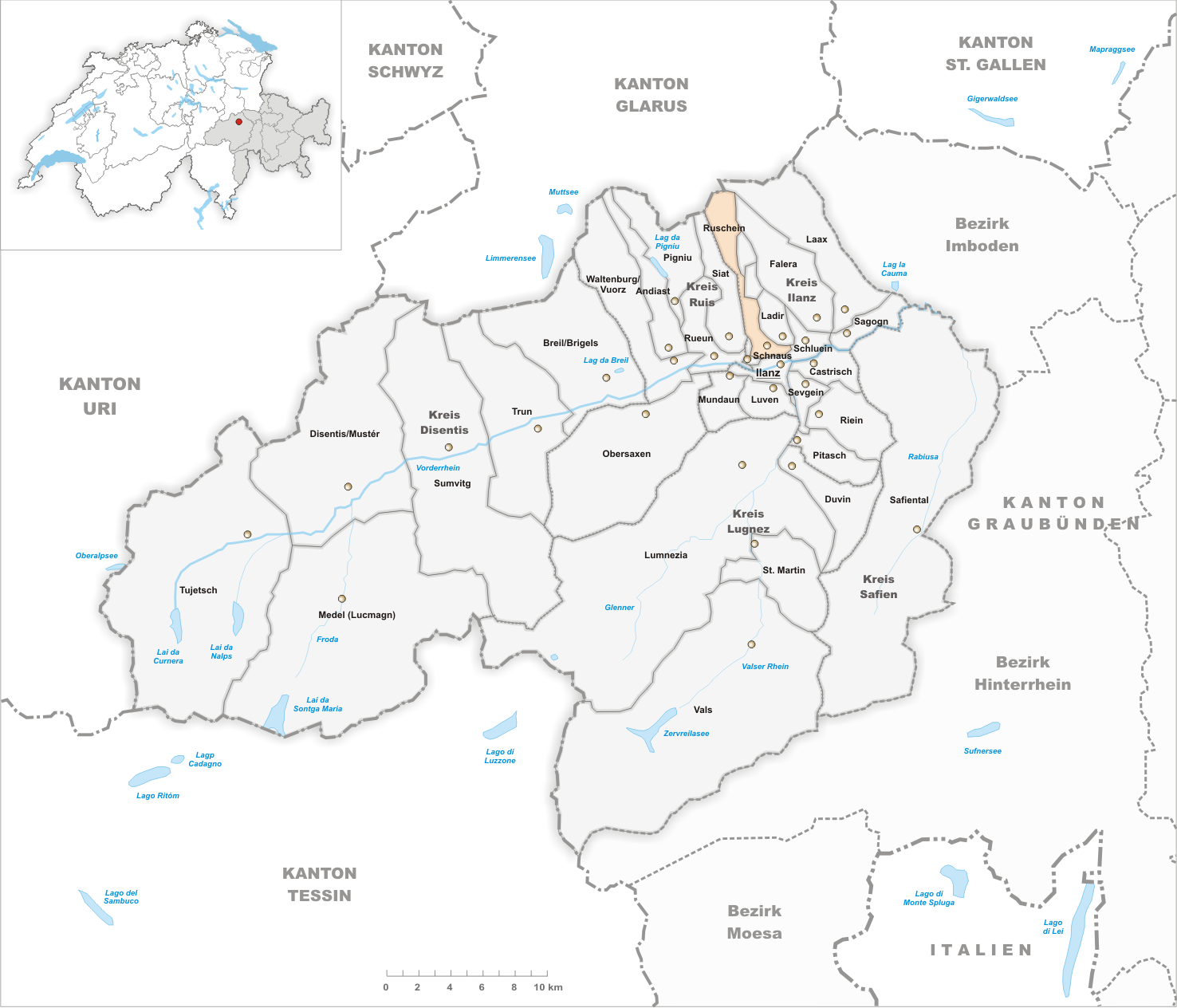 Municipality Ruschein